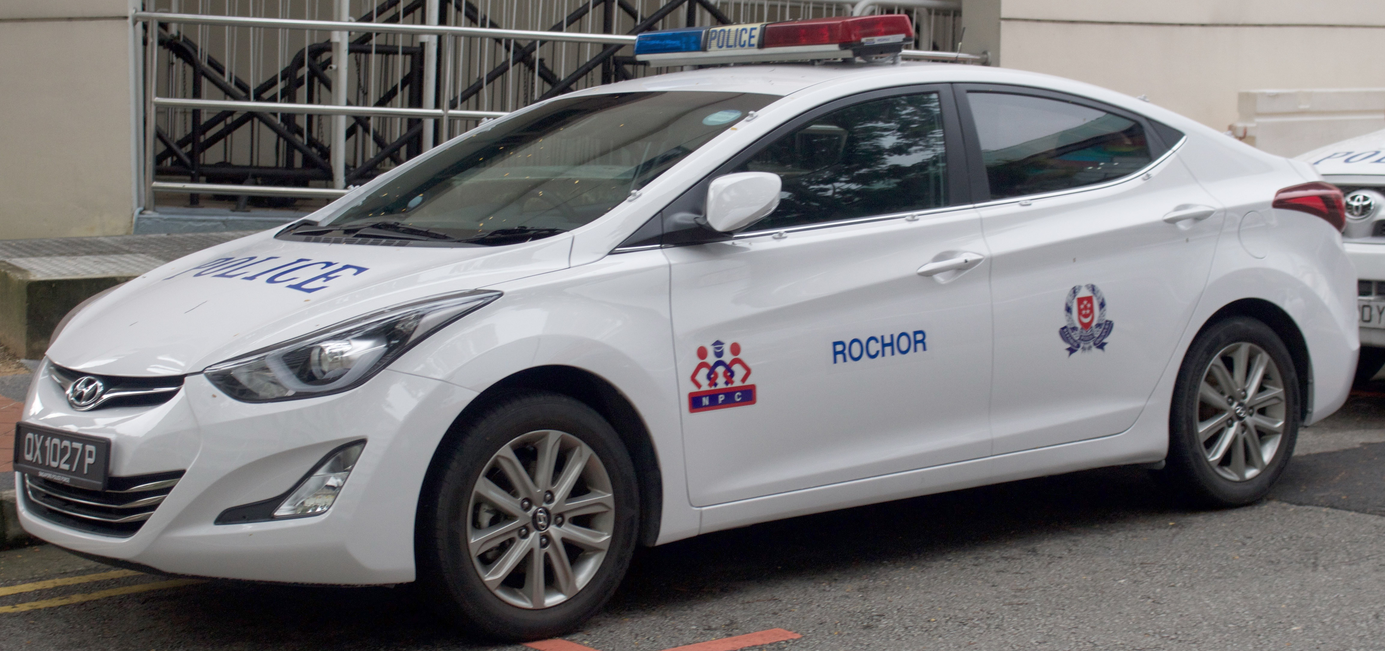 2014 Hyundai Elantra (MD3) 1.6 Elite sedan, Singapore Police Force. Photographed in Singapore.